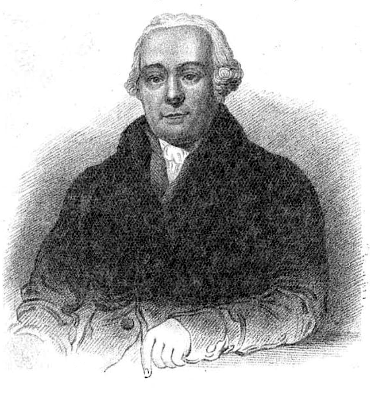 Etched image of William Fox, from book. Cropped and slightly cleaned.